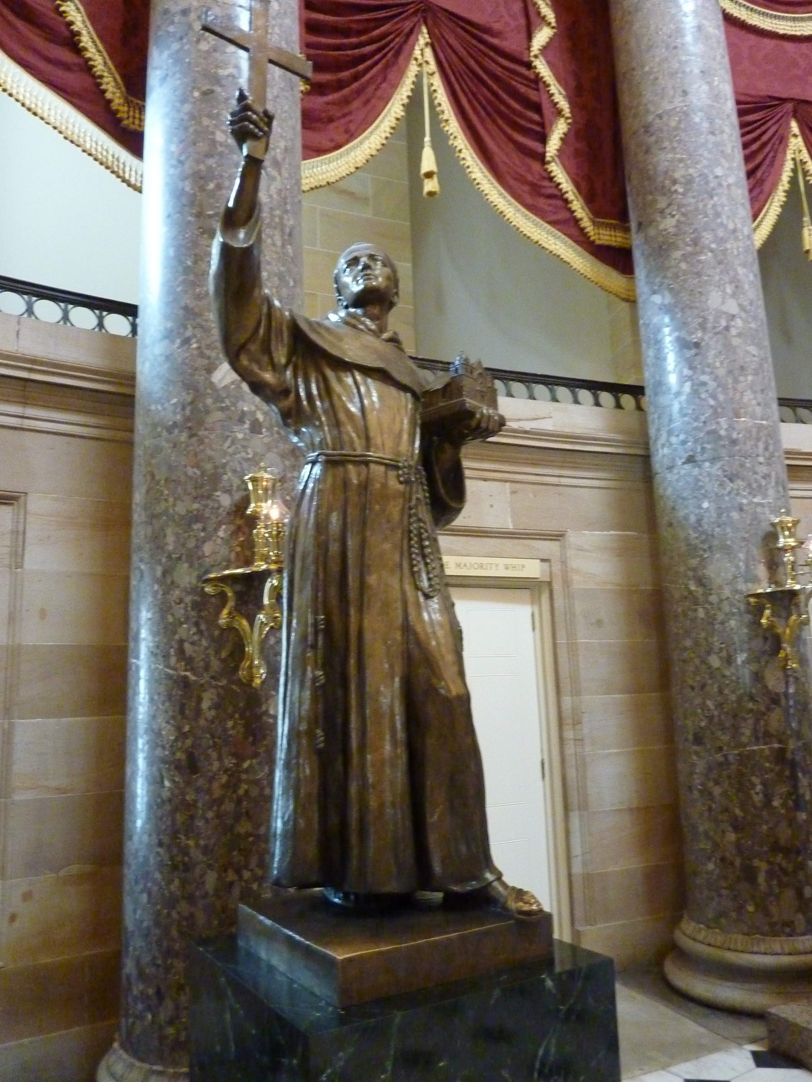 Junípero Serra in National Statuary Hall Collection.